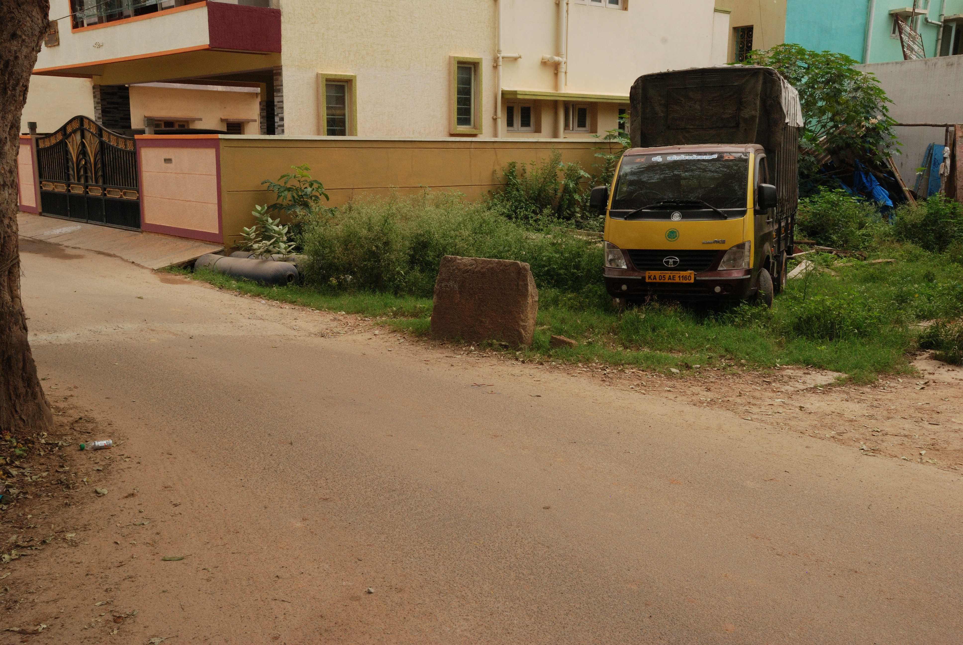 inscriptionstonesofbangalore